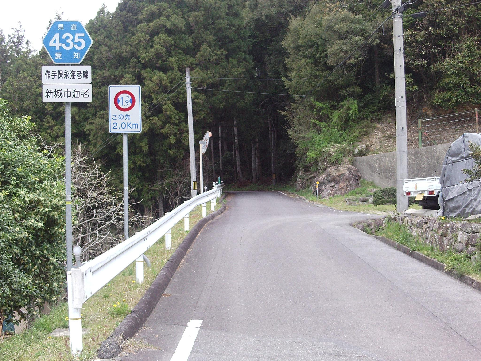 Aichi prefectural road No.435 in Ebi, Shinshiro, Aichi.